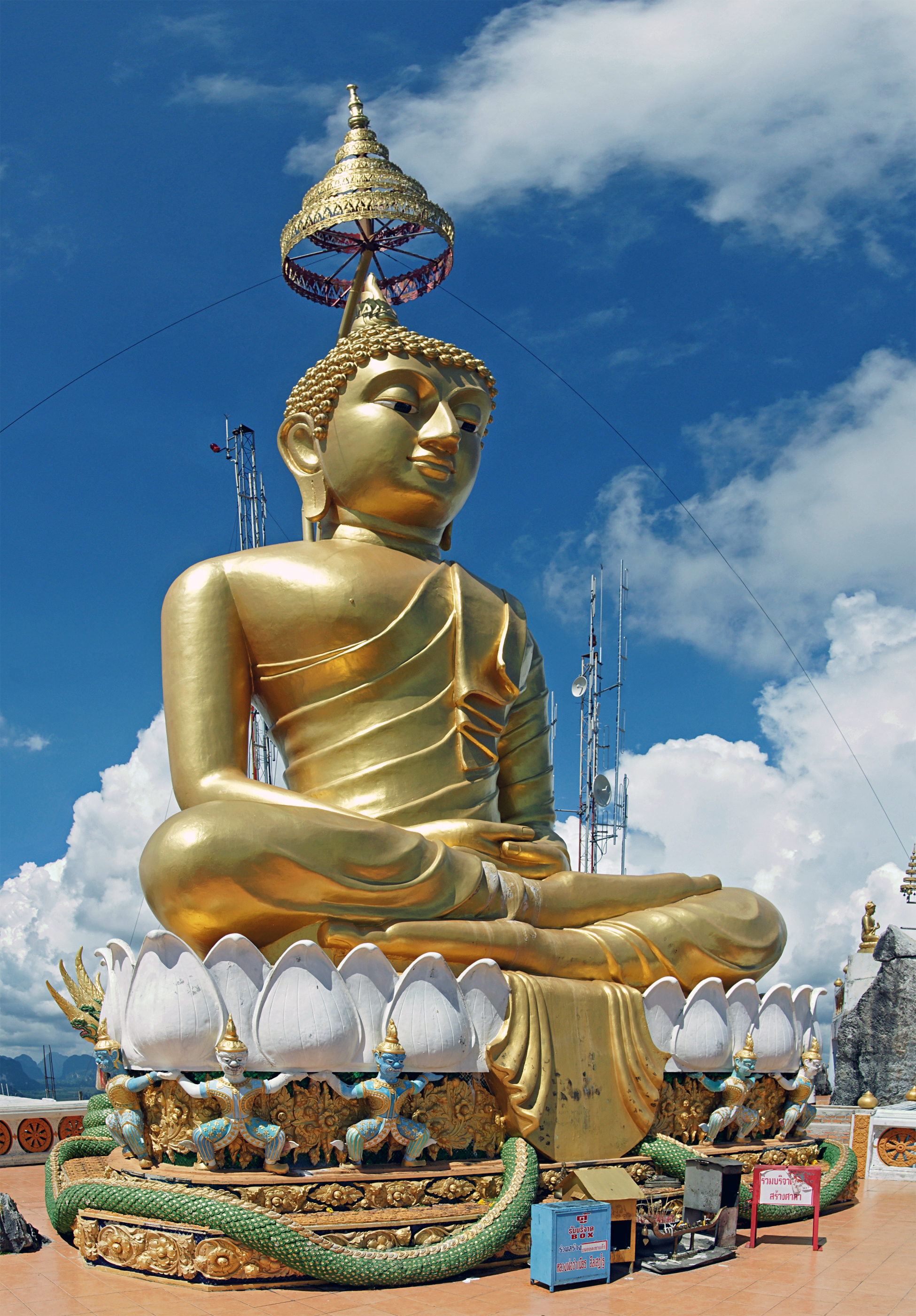 Tiger Cave Temple (Wat Tham Sua) in Krabi town, Krabi, Thailand.